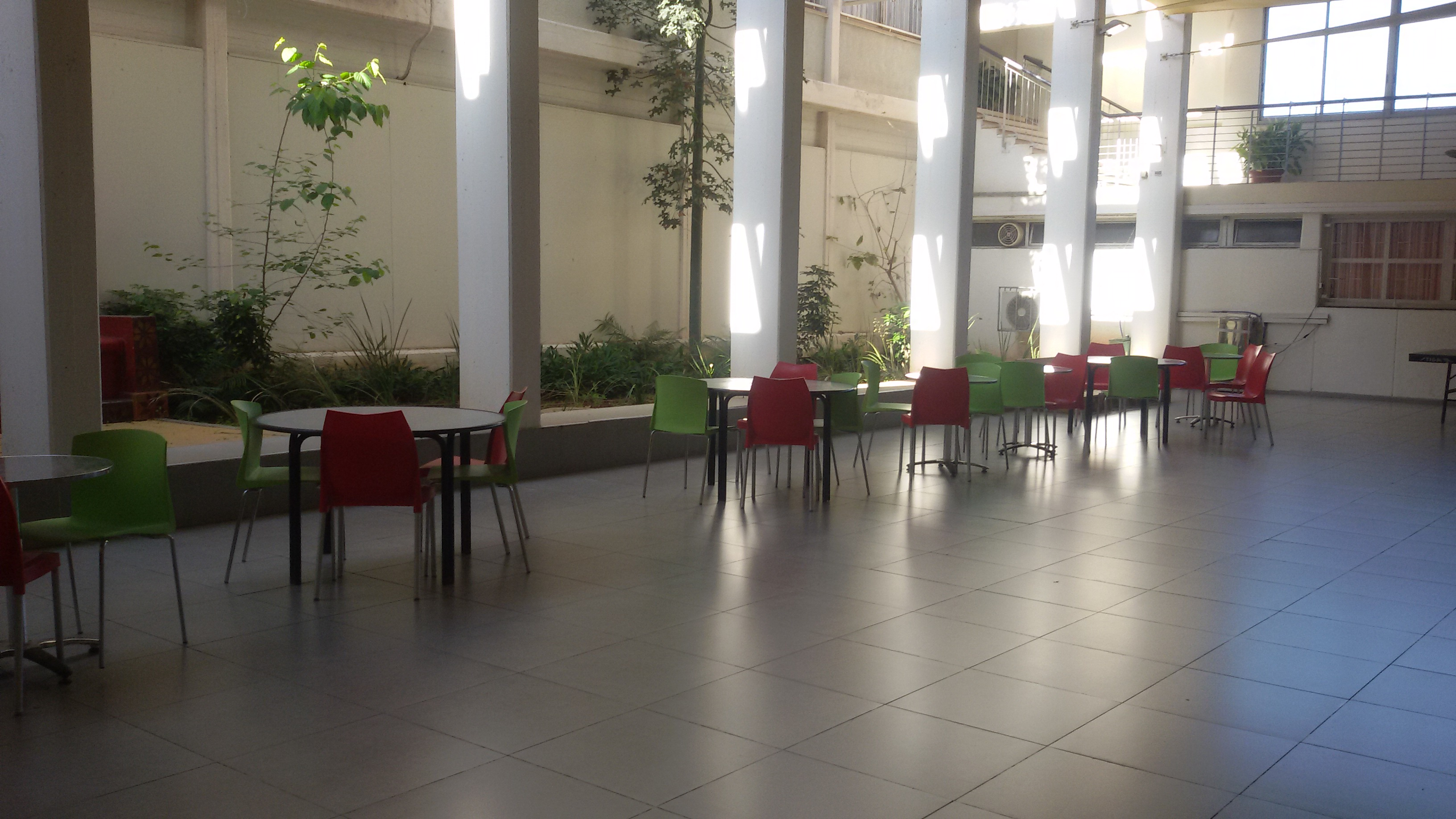 מקיף רמת גן